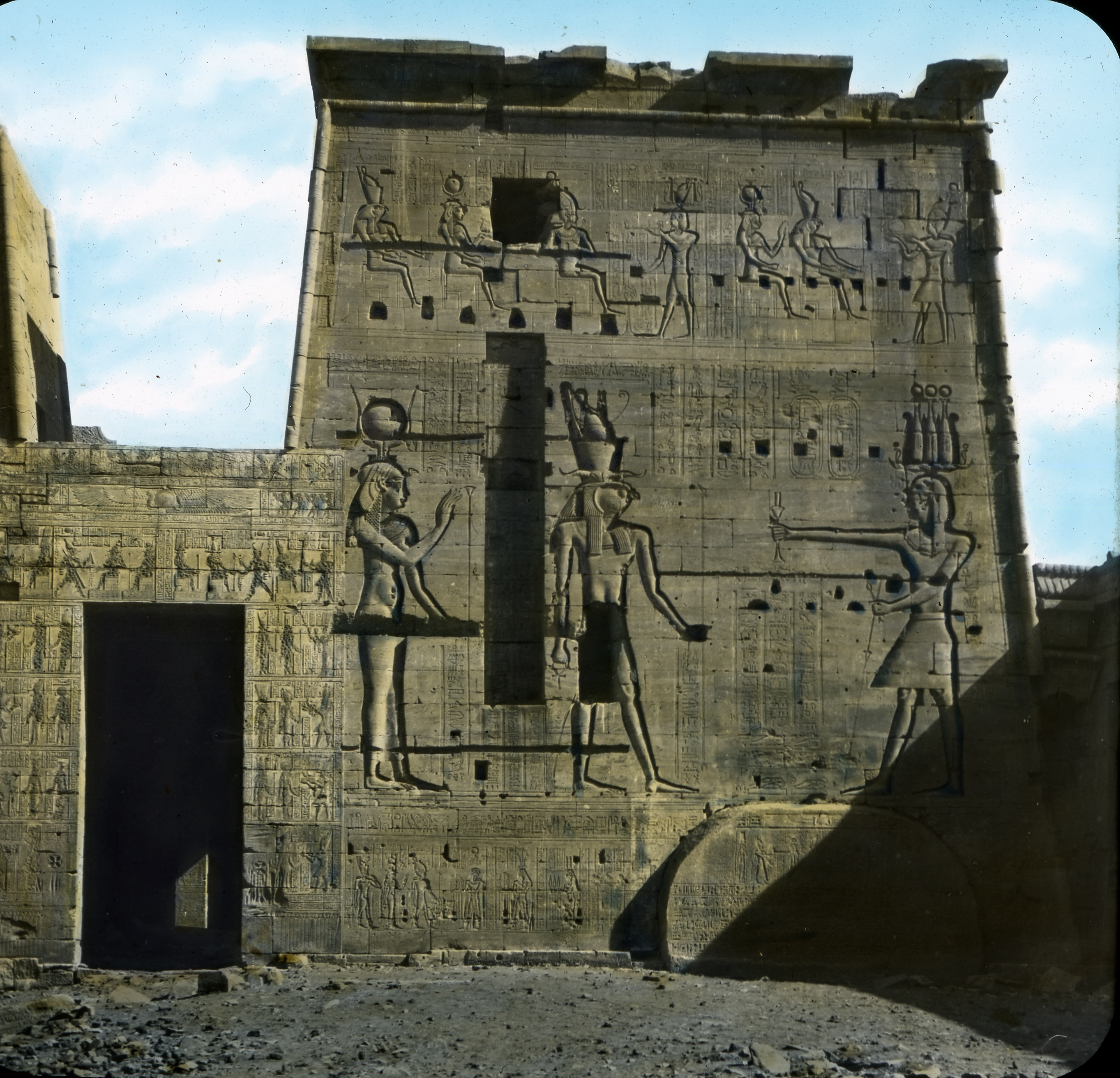 Lantern Slide Collection: Views, Objects: Egypt. Philae. [selected images]. View 05: Egypt - Philae. Pylon., n.d., This slide colored by Joseph Hawkes. Brooklyn Museum Archives (S10.08 Philae, image 9653).